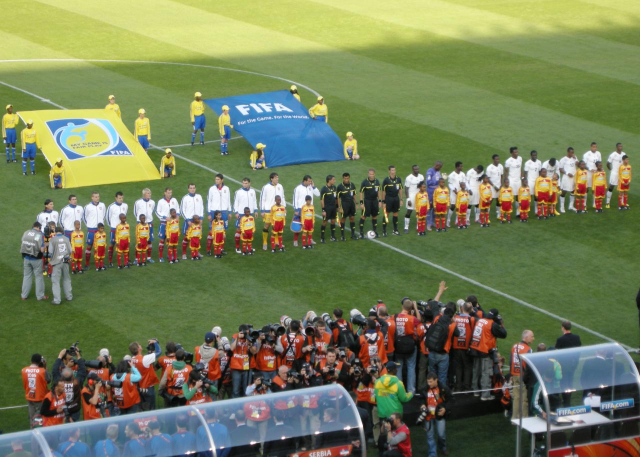 Teams on the pitch before the kick-off of the game between Serbia and Ghana at FIFA World Cup 2010, 13 June 2010, Loftus Versfeld Stadium, Pretoria